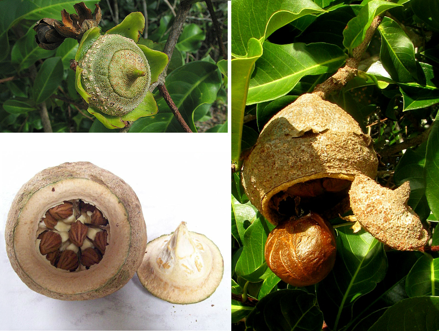 Lecythis fruit, a "pot" fruit.